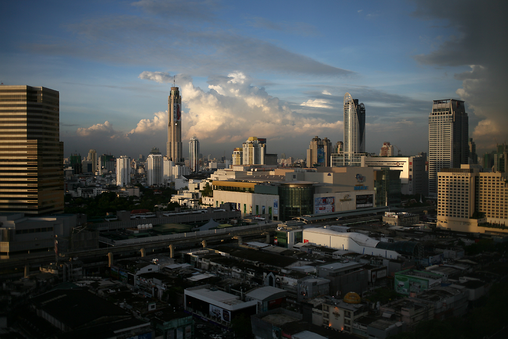 View of the city of Bangkok: in the lower part the Siam skytrain station area